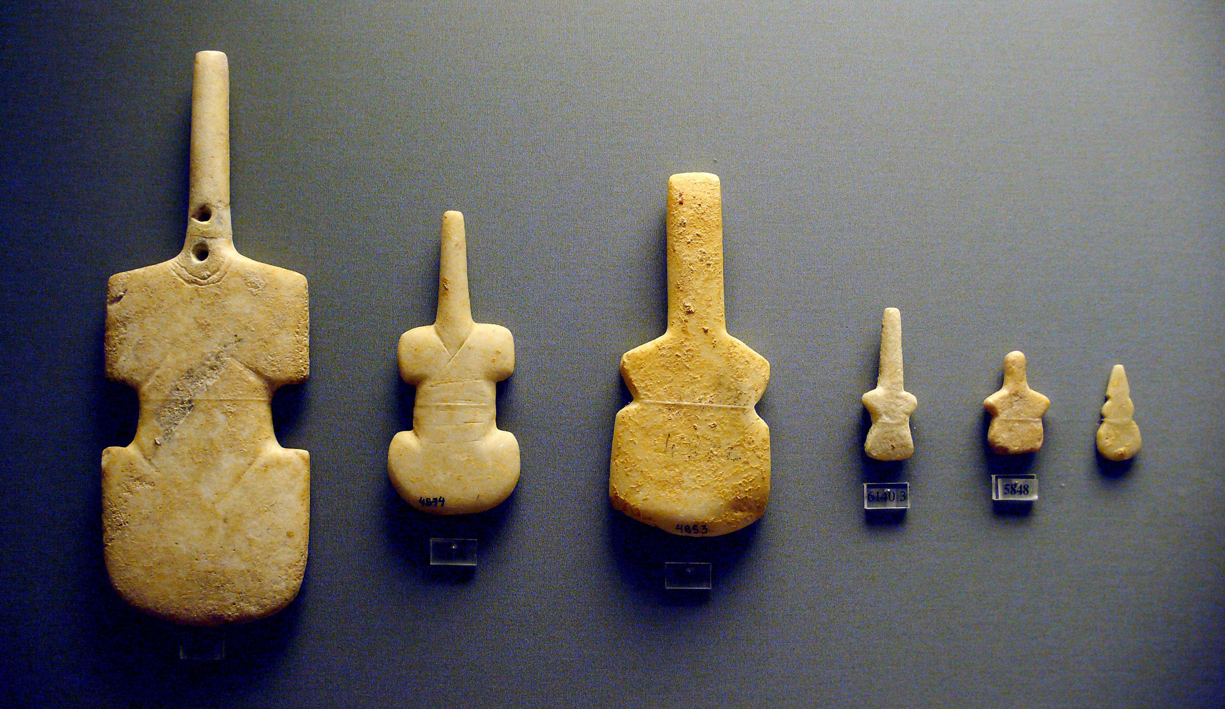 Violin-shaped cycladic figurines depicting female idols. Early Cycladic I period, Grotta-Pelos culture, 3200-2800 BC. National Archaeological Museum, Athens. Figurine with holes is no. 3937, from Kimolos.